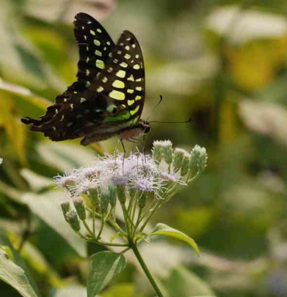 Tailed Jay(চইতক)Kolkata, West Bengal,India